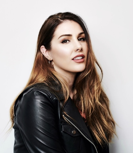 Lucy Pinder, Headshot photo, June 2018 Jerri Jarmeh